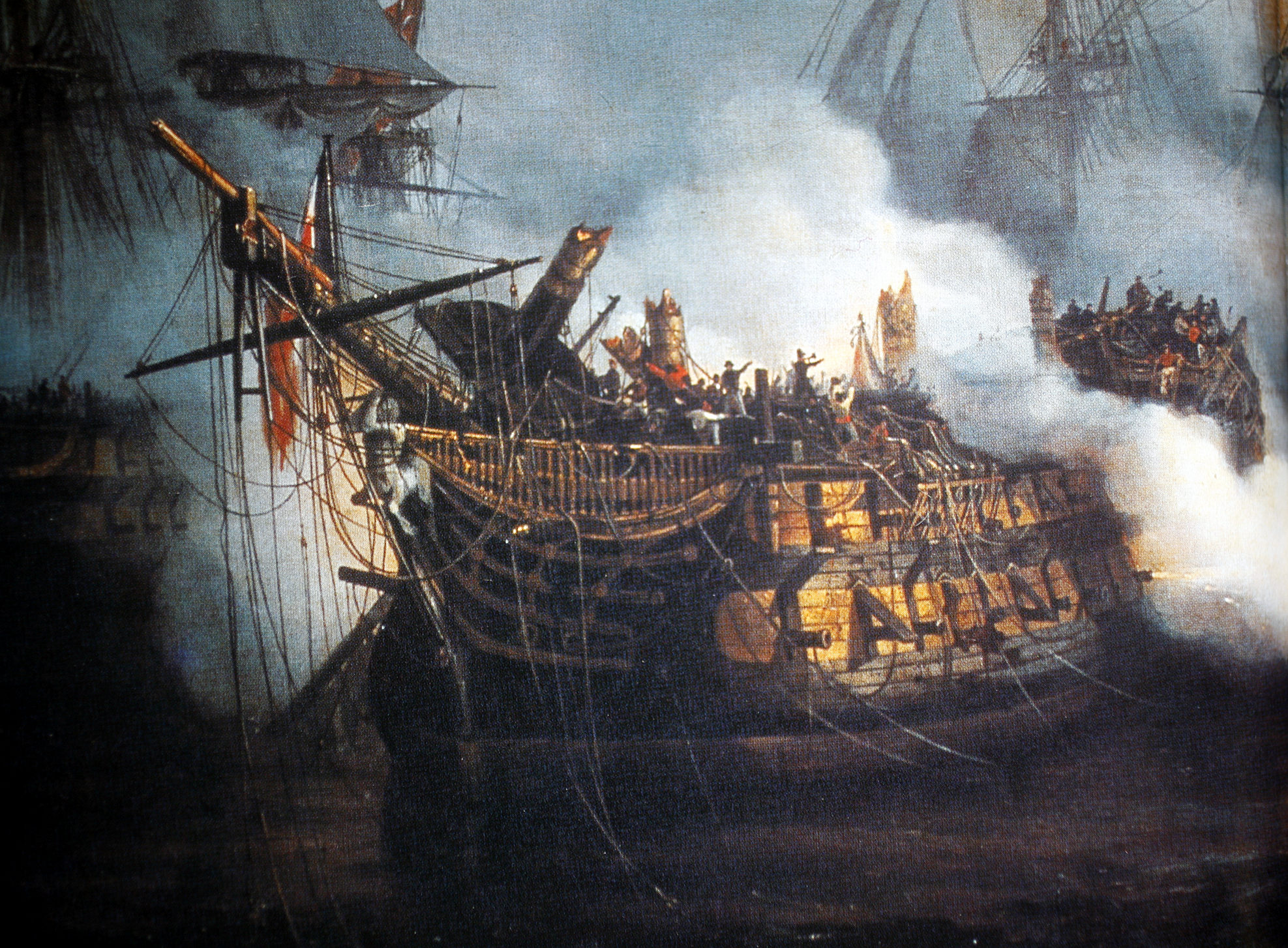 Trafalgar